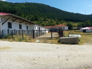 External view of the Standard Center "Christodoulos Galanos" for Livestock and Education.